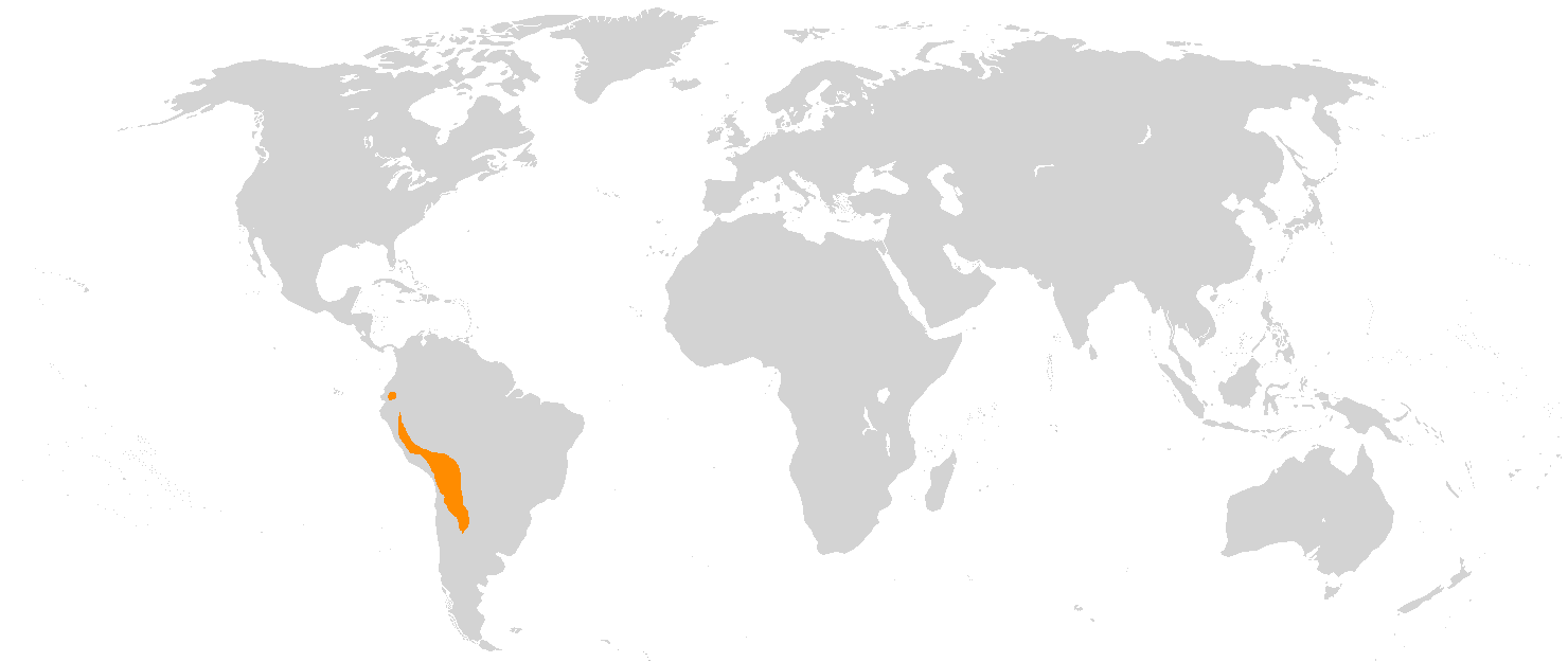 Llama (Lama glama) and alpaca (Vicugna pacos) range